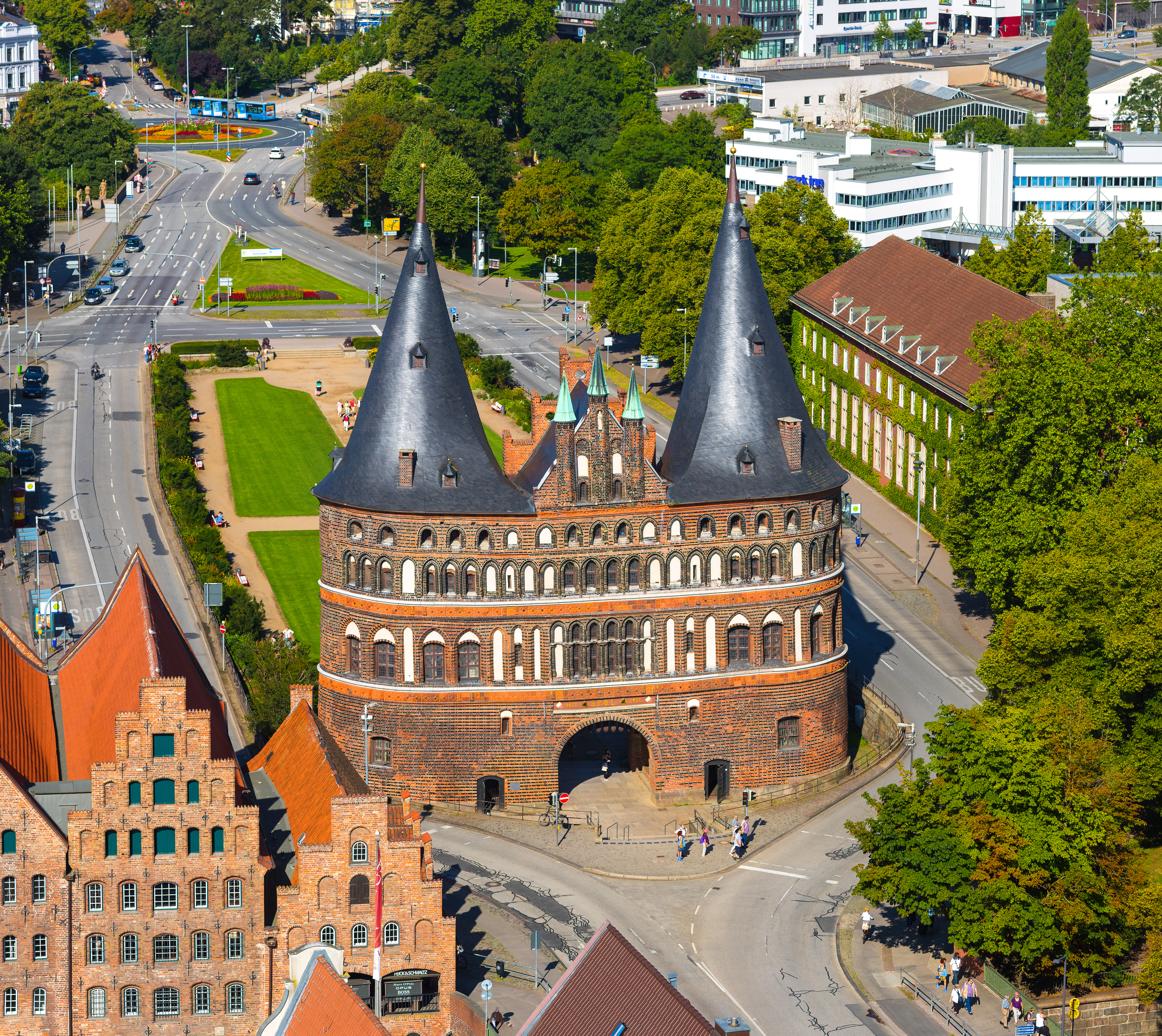 Holstentor in Lübeck, Germany. View from Petrikirche. View over the Holstenplatz. To the lower left the historical Salzspeicher.